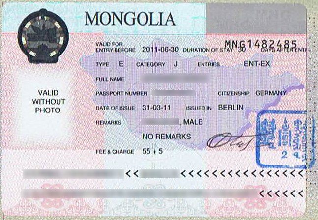 Tourist visa of Mongolia